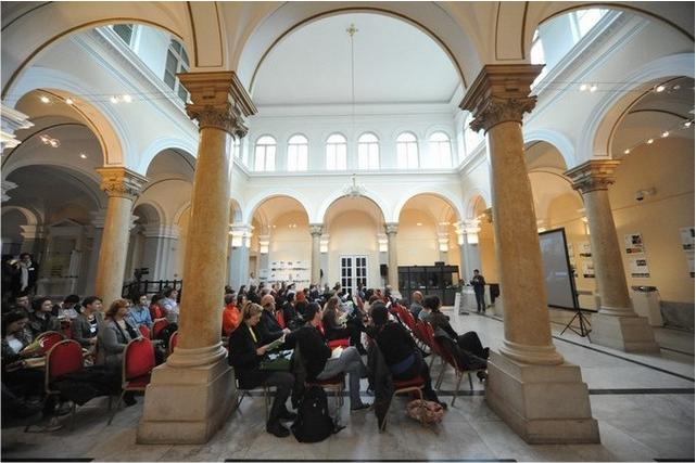 City Acupuncture konferencija